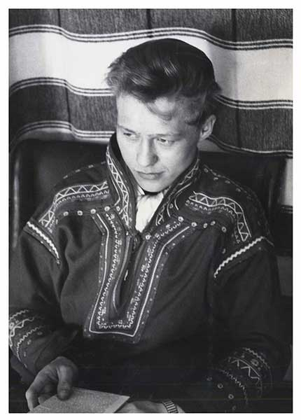 Photograph of the Finnish writer Nils-Aslak Valkeapää (1943–2001).